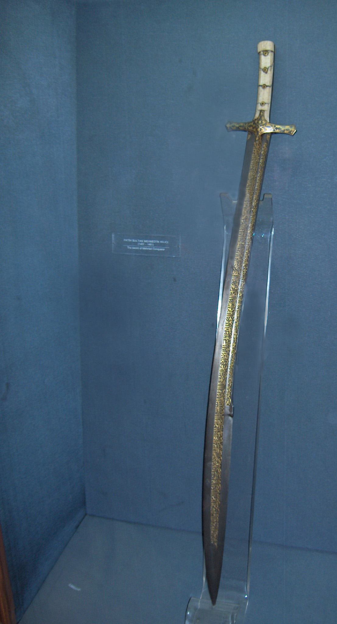 Sword of Mehmet the Conqueror; Topkapı Palace, Istanbul, Turkey